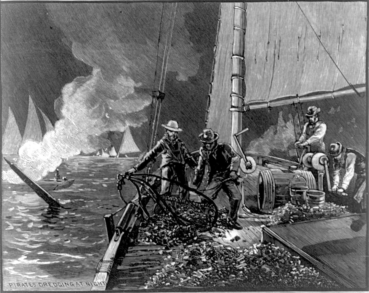 Title: The oyster war in Chesapeake Bay Date Created/Published: 1884 Mar. 1. Medium: 1 print : wood engraving. Summary: Pirates dredging at night. Reproduction Number: LC-USZ62-76144 (b&w film copy neg.) Rights Advisory: No known restrictions on publication. Call Number: Illus. in AP2.H32 1884 (Case Y) [P&P] Repository: Library of Congress Prints and Photographs Division Washington, D.C. 20540 USA Notes: * Drawing by Schell and Hogan. * Illus. in: Harper's Weekly, Mar. 1, 1884, p. 136. * No ref. copy. * This record contains unverified data from caption card. * Caption card tracings: Police; Ships Julia Hamilton; Fishing Oyster; Geogr.; Crime and Criminals; Pirates; Geogr.; Publ. Ind.; B.I.